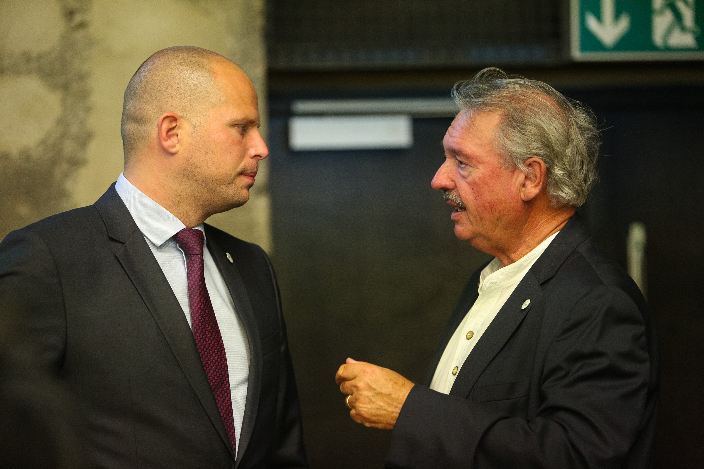 (l-r) Theo Francken, State Secretary for Asylum Policy and Migration, Government, Belgium; Jean Asselborn, Minister, Ministry of Foreign and European Affairs, Luxembourg